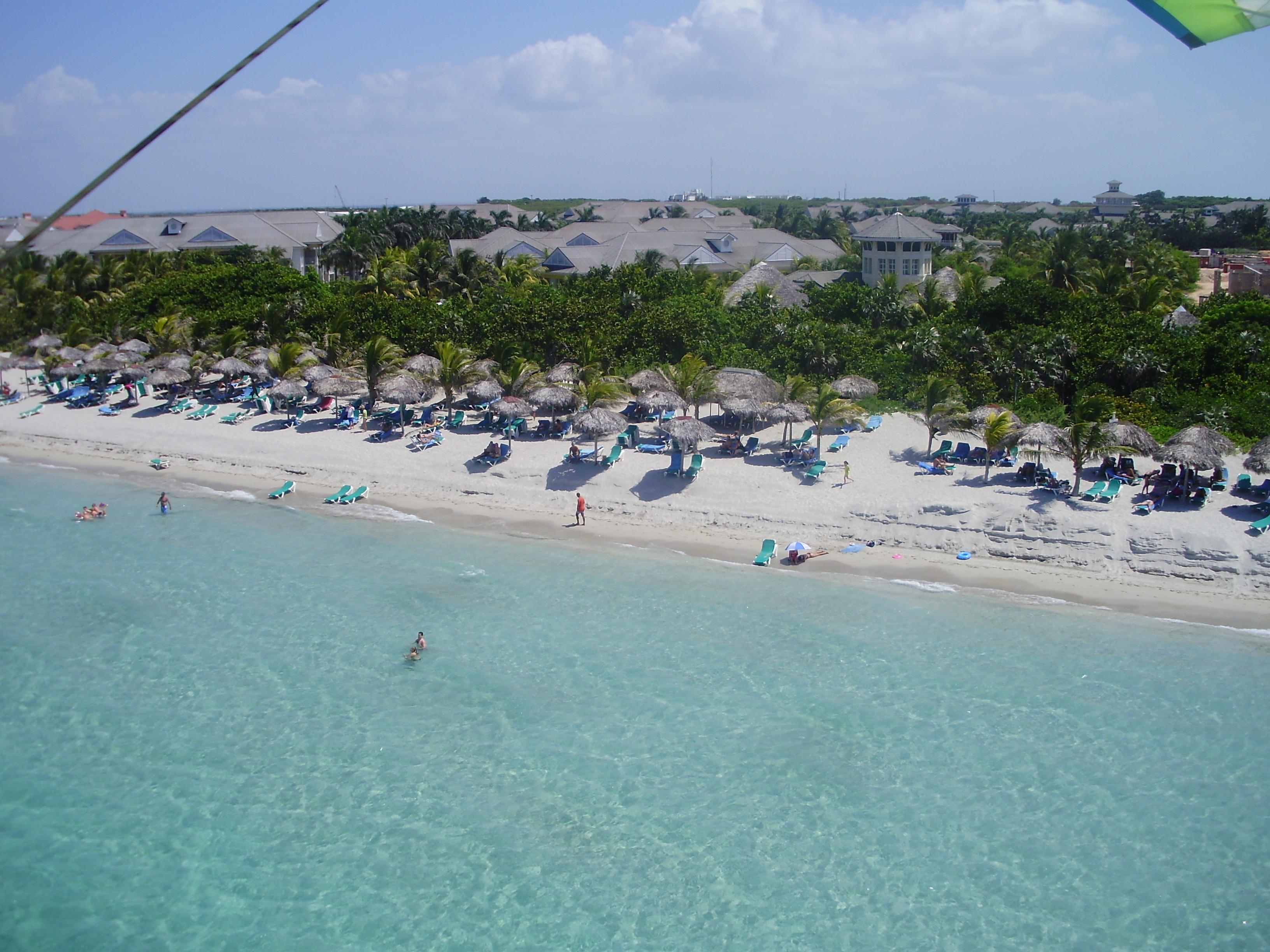 Aerial photo of Varadero, Cuba